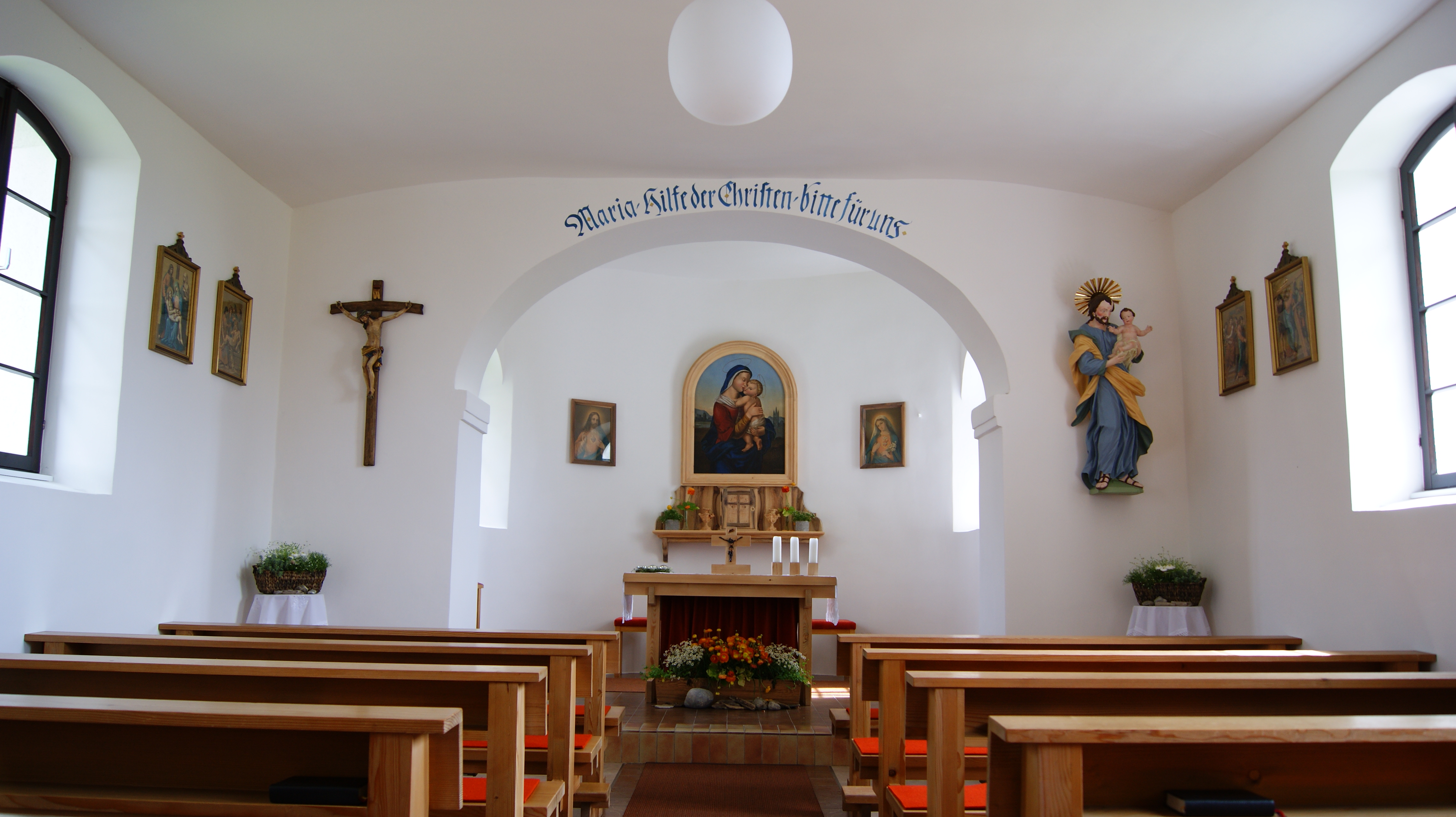 Altar in the chapel Saint Mary of Help in Jennen in Dornbirn, Vorarlberg, Austria.